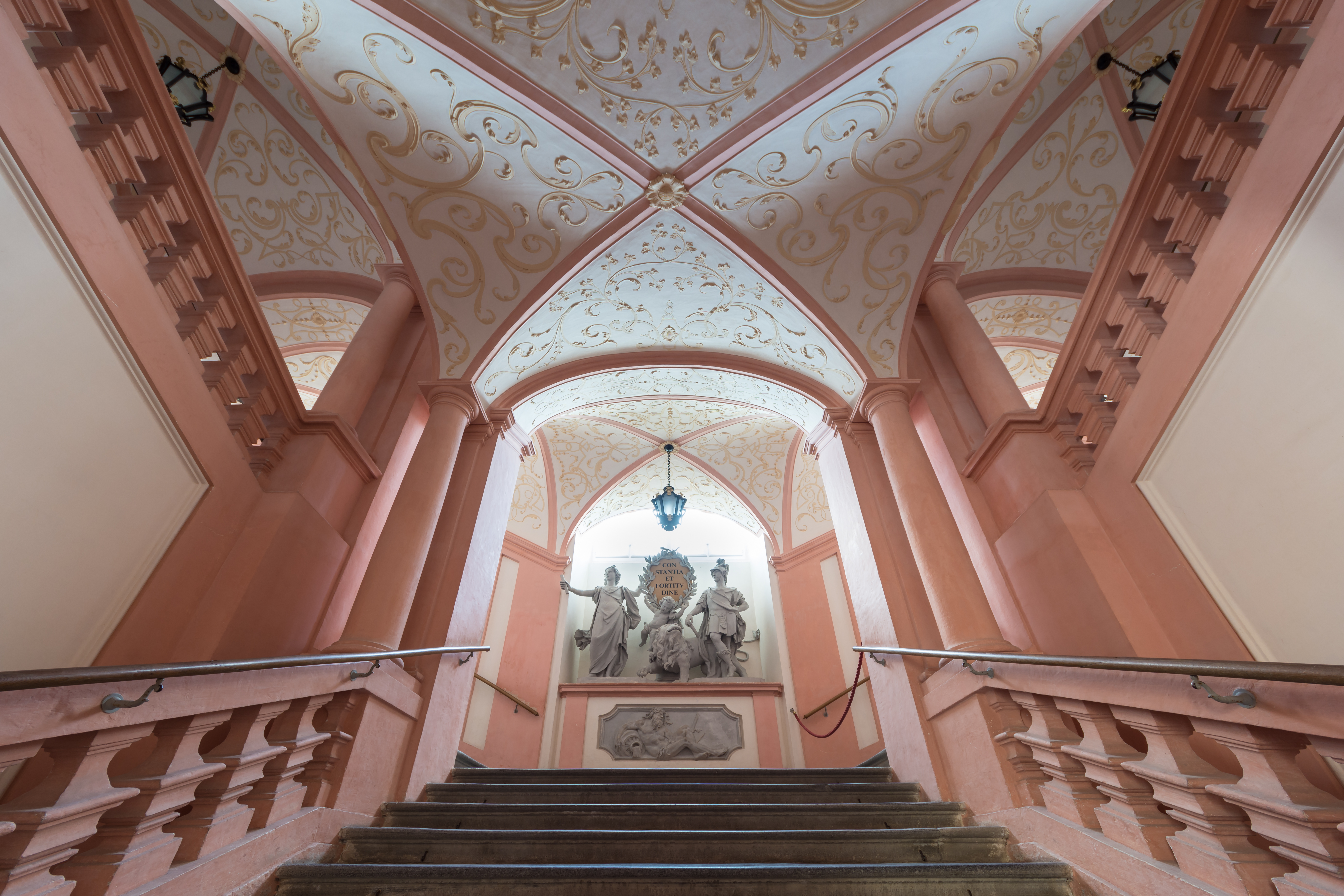 Imperial Staircase of Melk Abbey, Lower Austria